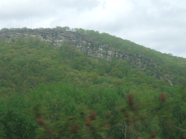 Campbell's Ledge from State Road 92 in Exeter Township in Pennsylvania.